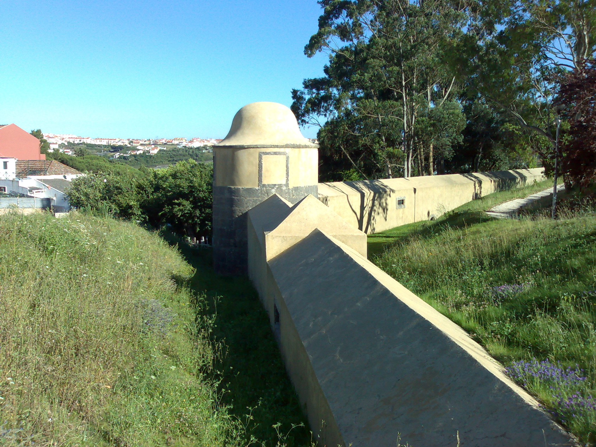 "Aqueduto das águas livres" at Caneças, Odivelas, Portugal.